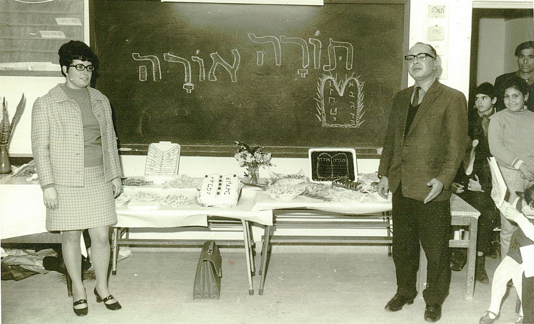 Events in Israel